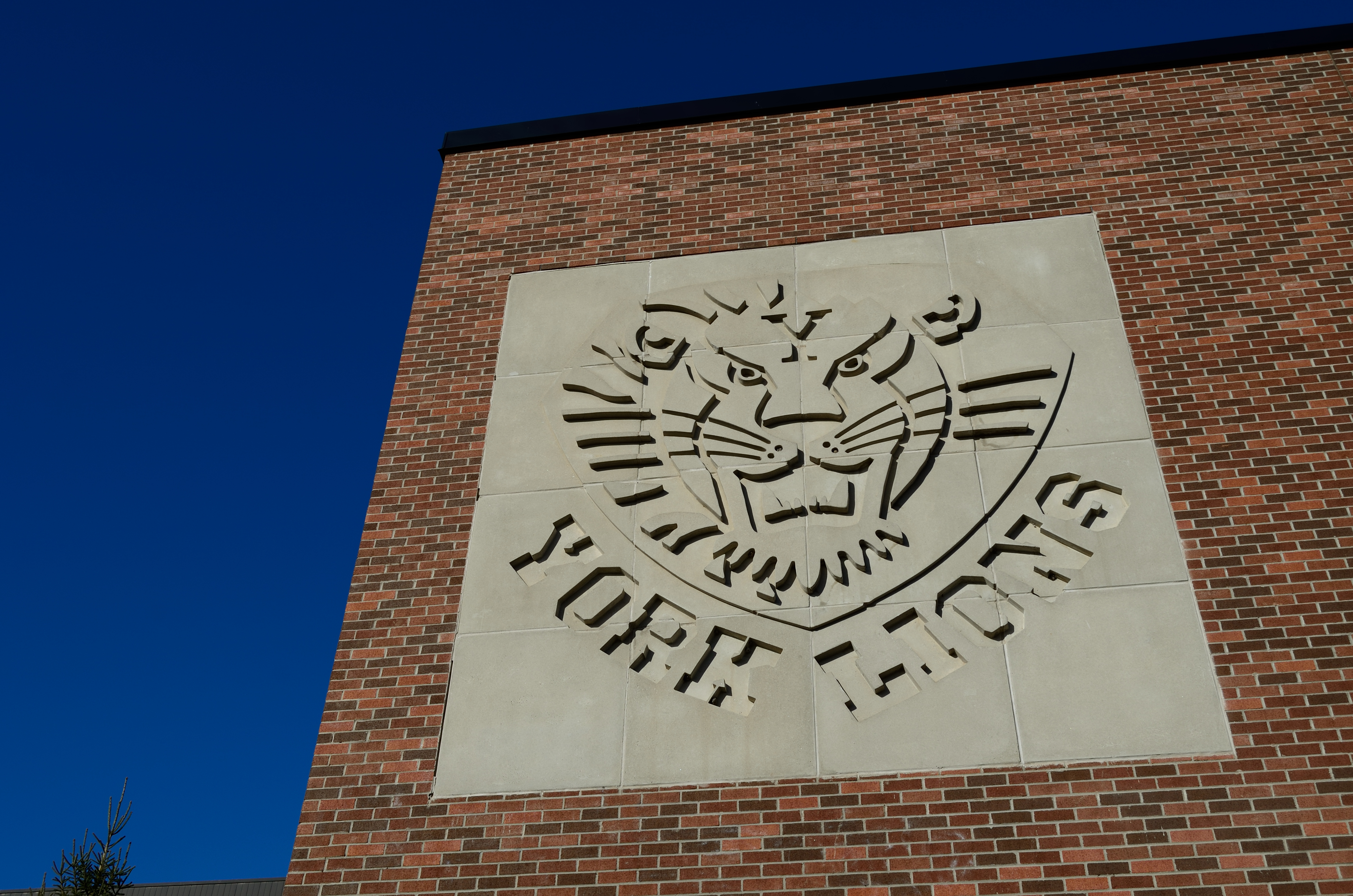 York Lions - Tait McKenzie Centre